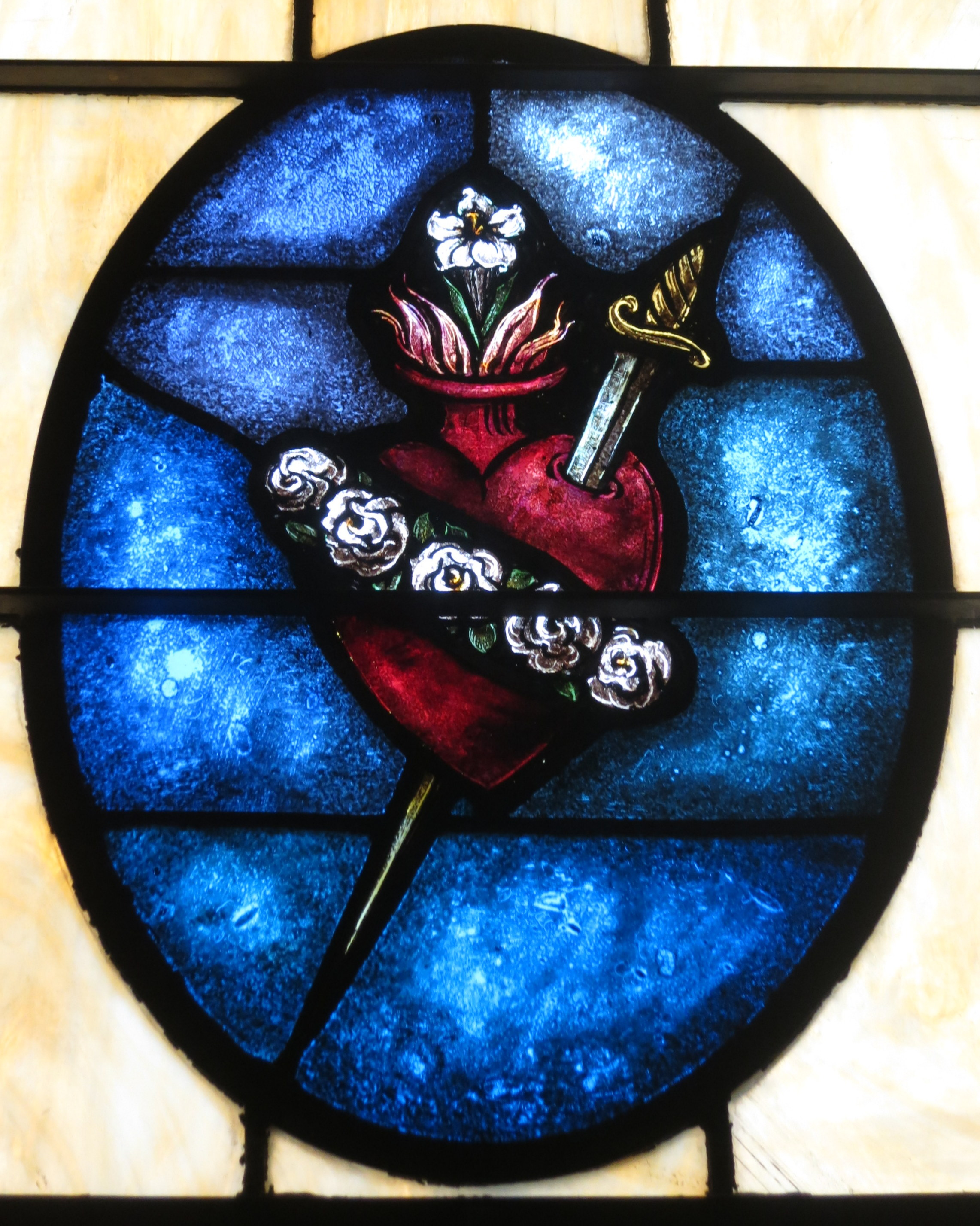 Holy Family Catholic Church (North Baltimore, Ohio) - stained glass, Immaculate Heart